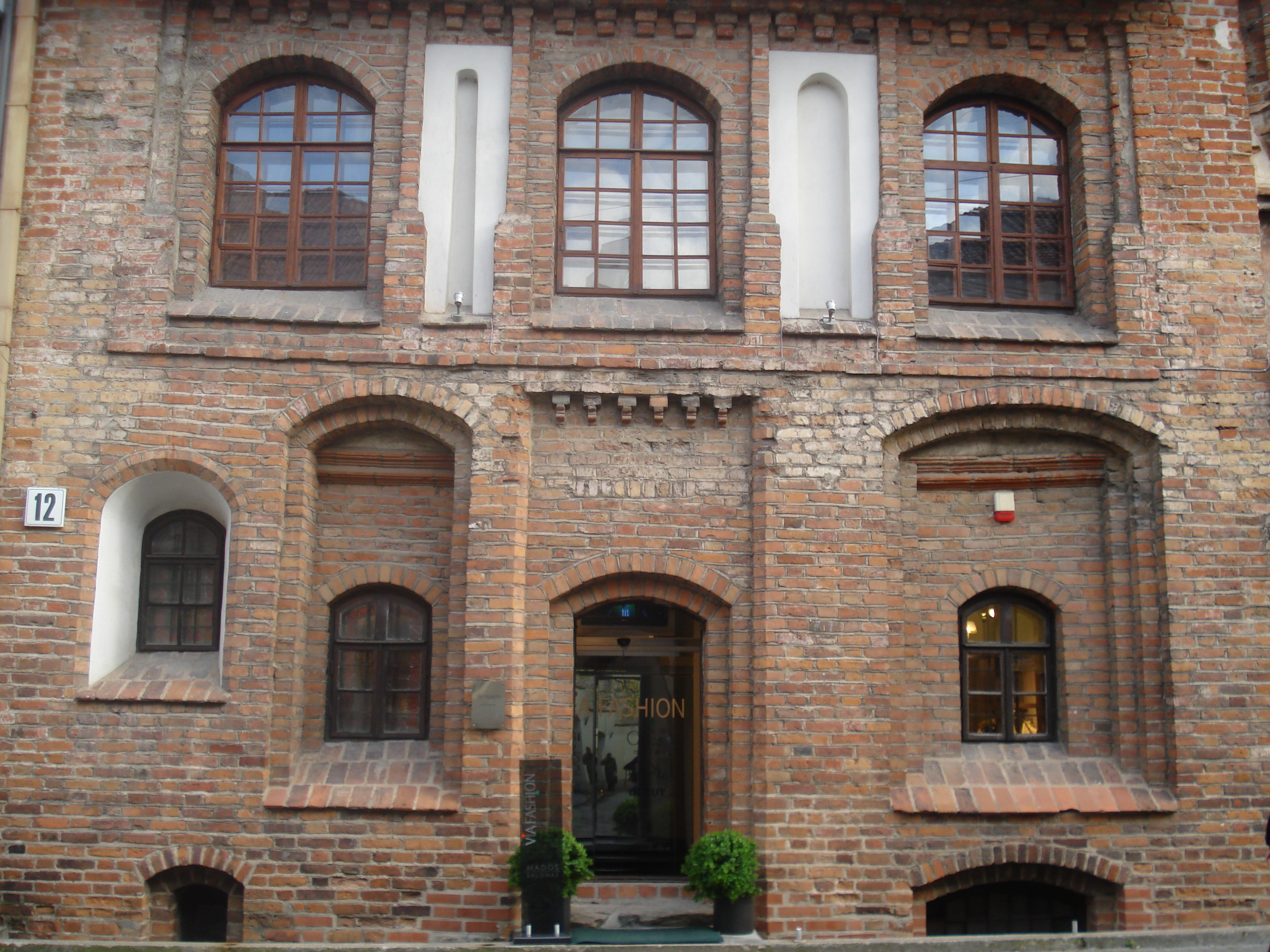 Gothic house in Pilies street in Vilnius (Pilies g. 12). 16 century